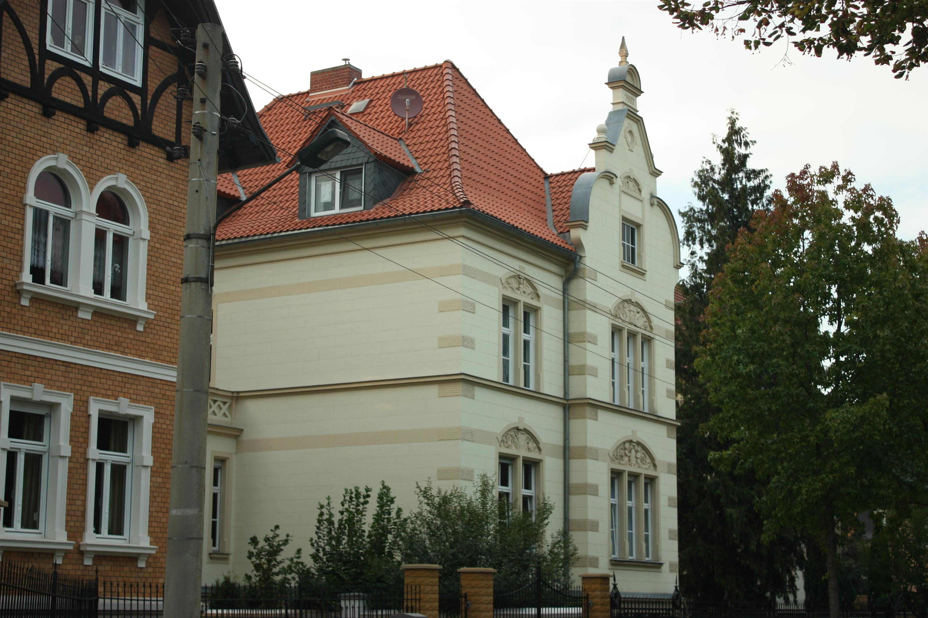 This is a photograph of an architectural monument.It is on the list of cultural monuments of Quedlinburg Billungstraße (Quedlinburg)